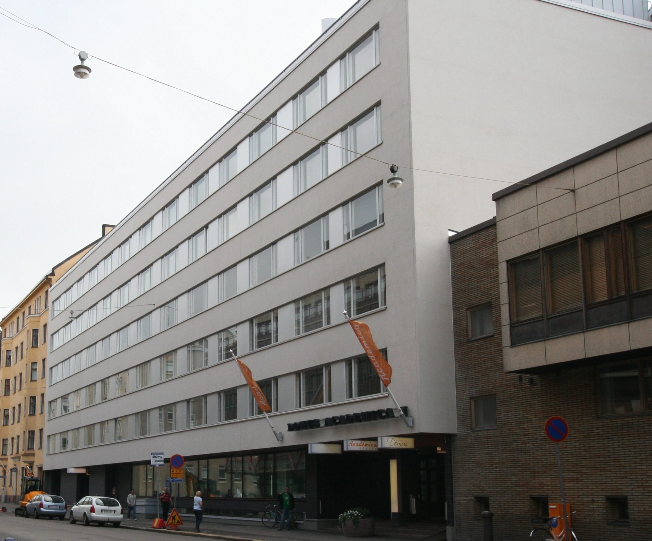 Domus Academica: student accomodation and summer hostel in Helsinki